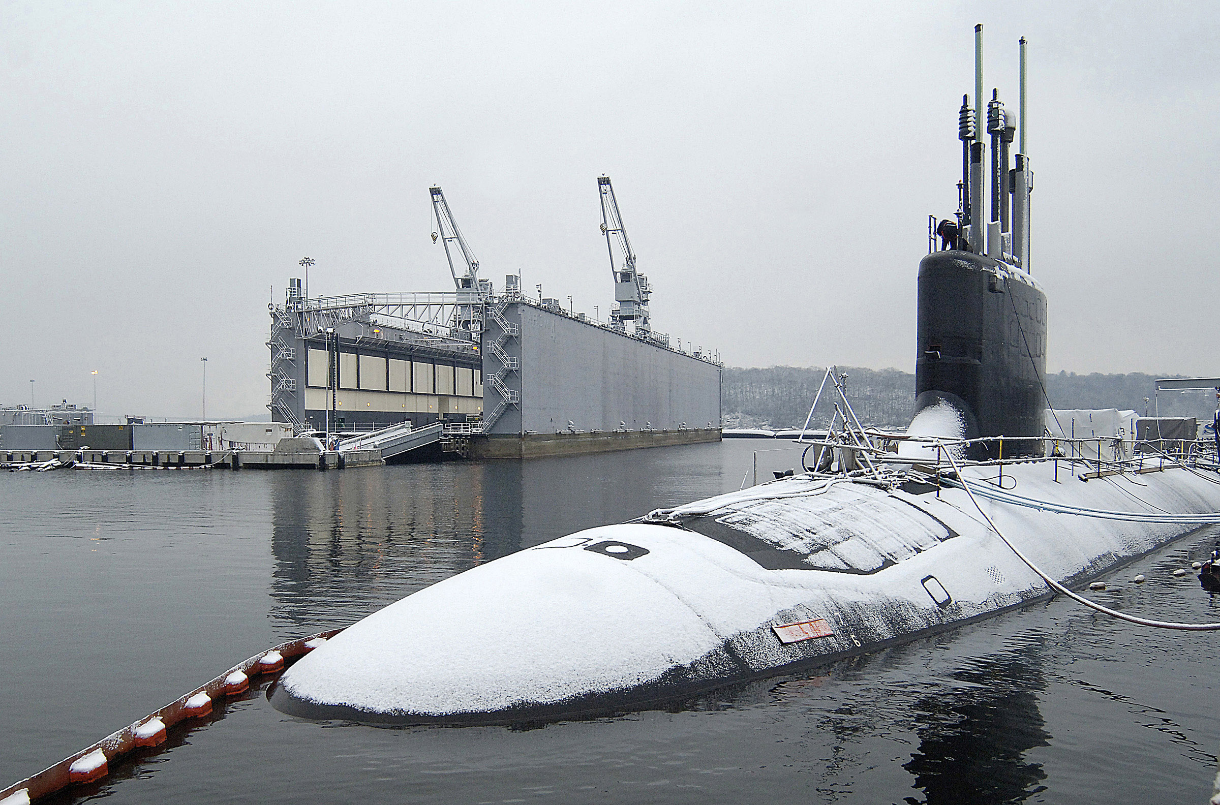 Snow covers the hull of the fast attack submarine USS Virginia (SSN 774) as it sits moored to the pier at Naval Submarine Base New London in Groton, Conn., on Feb. 2, 2007.